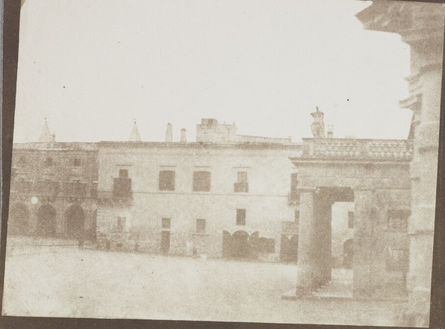 Calvert Jones, Main Guard building, Valletta, Malta 1846